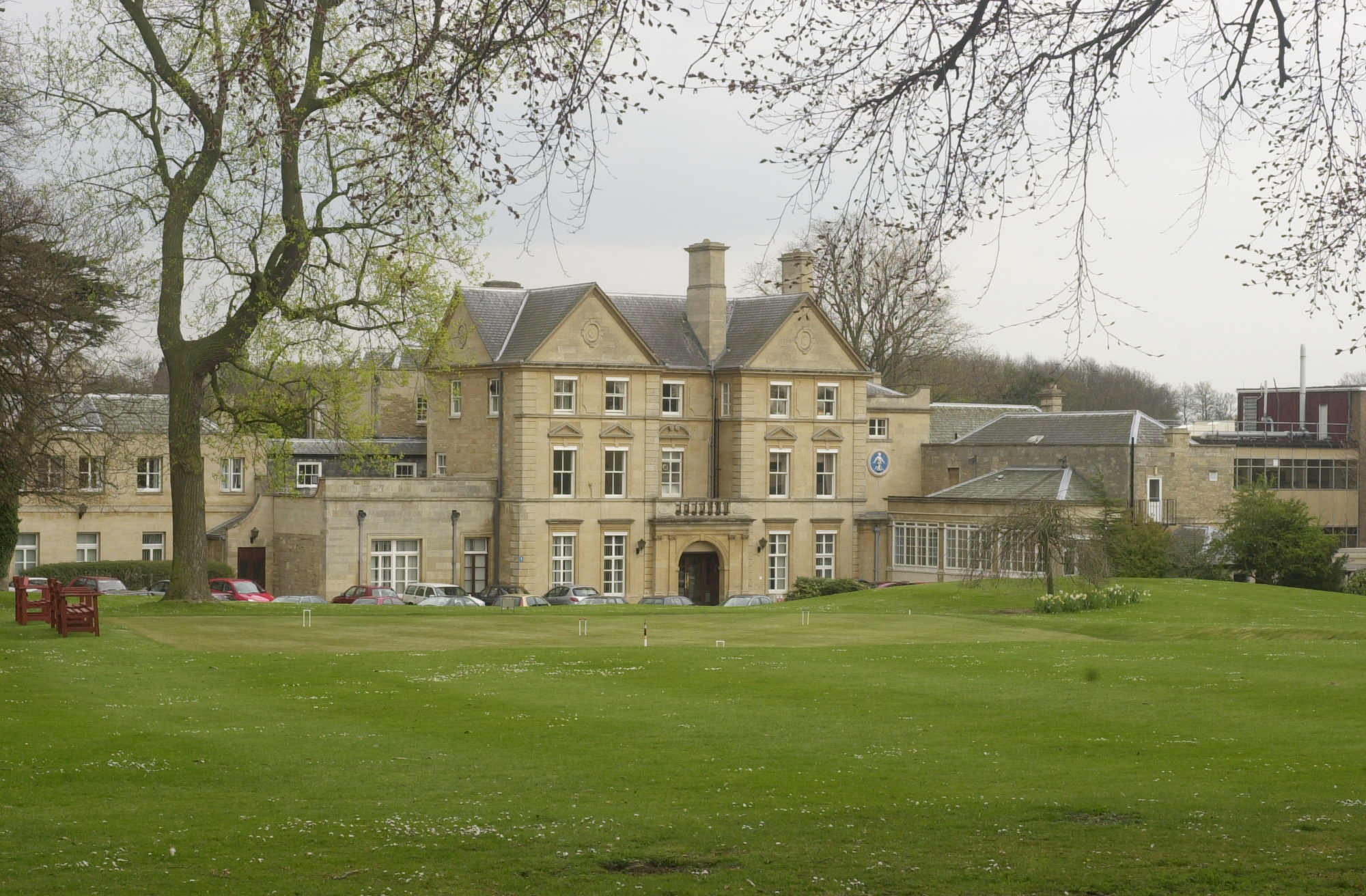 The main building in Colworth house, hosting Science Park reception, and Unilever HR and graphics